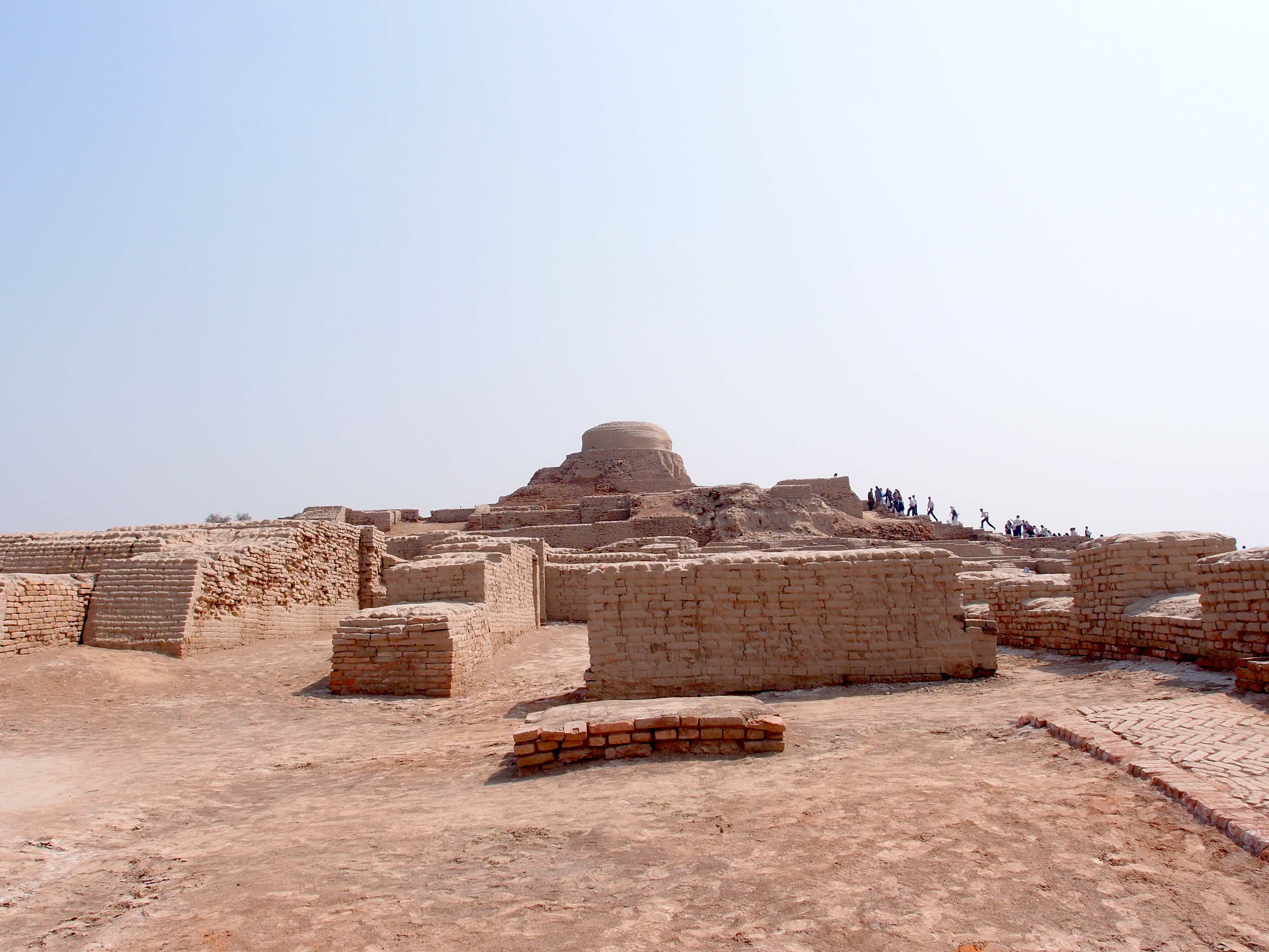 Mohenjo-daro stupa view in the background while other remains in the foreground This is a photo of a monument in Pakistan identified as the PK-S-47